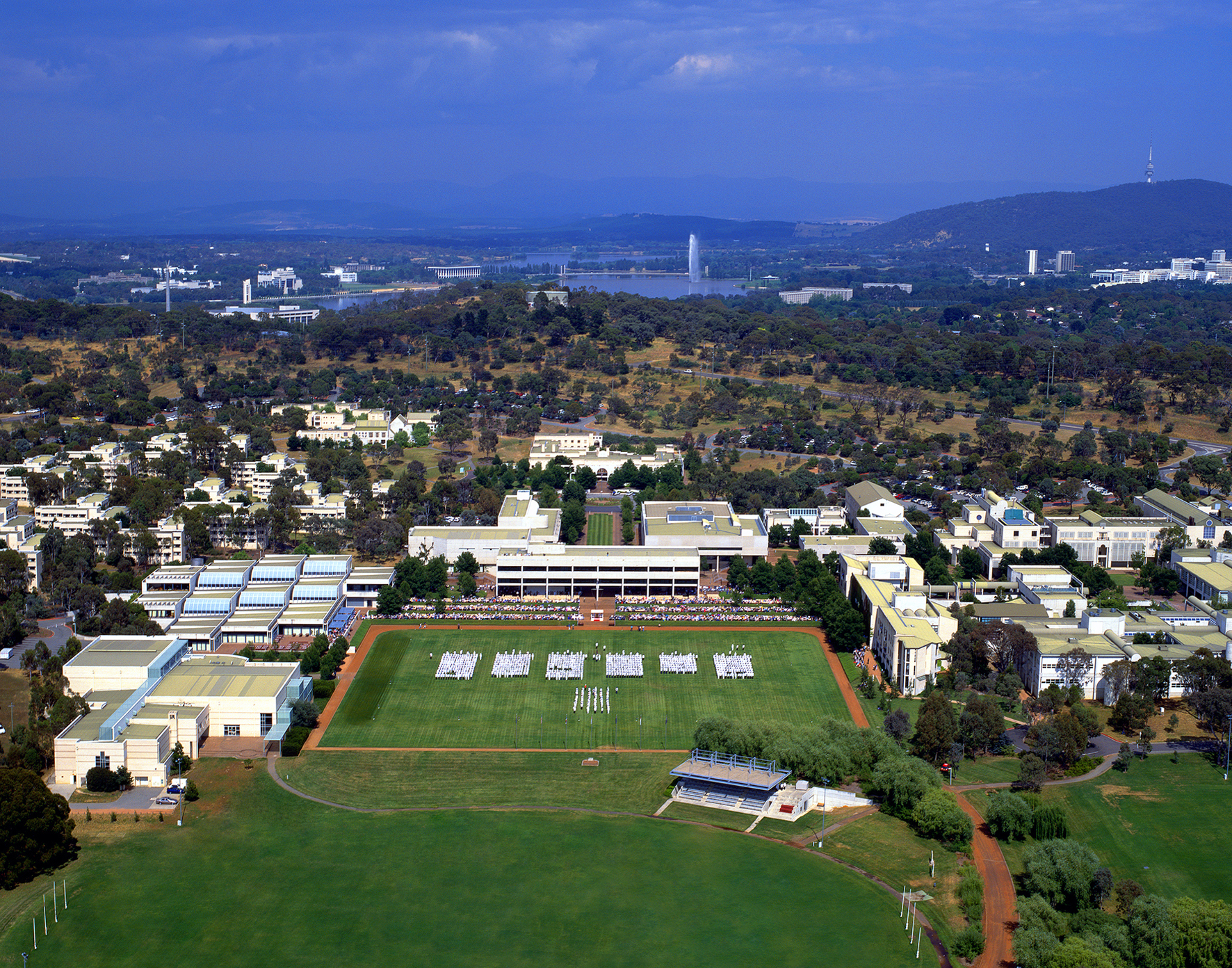 A shot of ADFA from an Aerial view